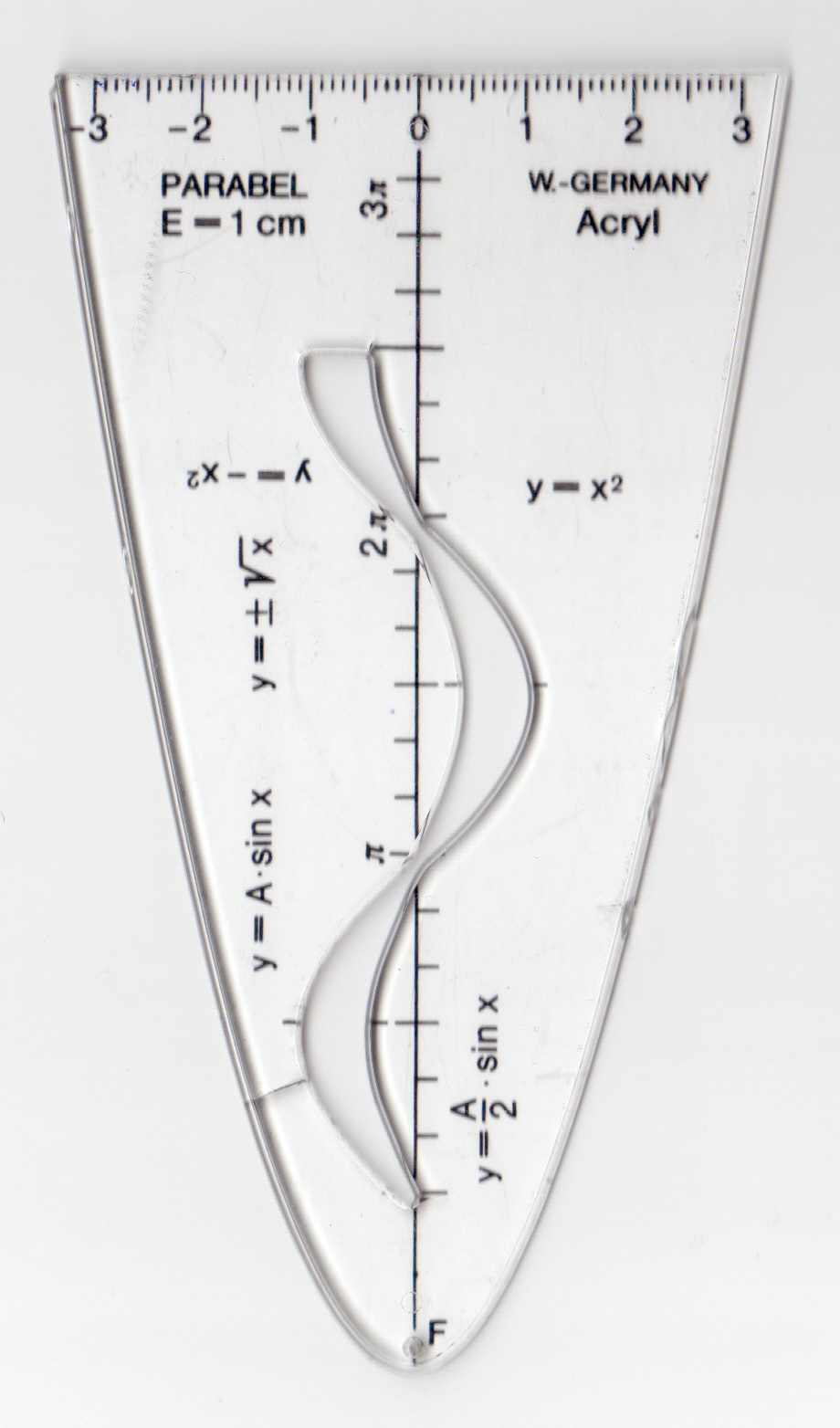 Scan of a acrylic parabola stencil from West-Germany